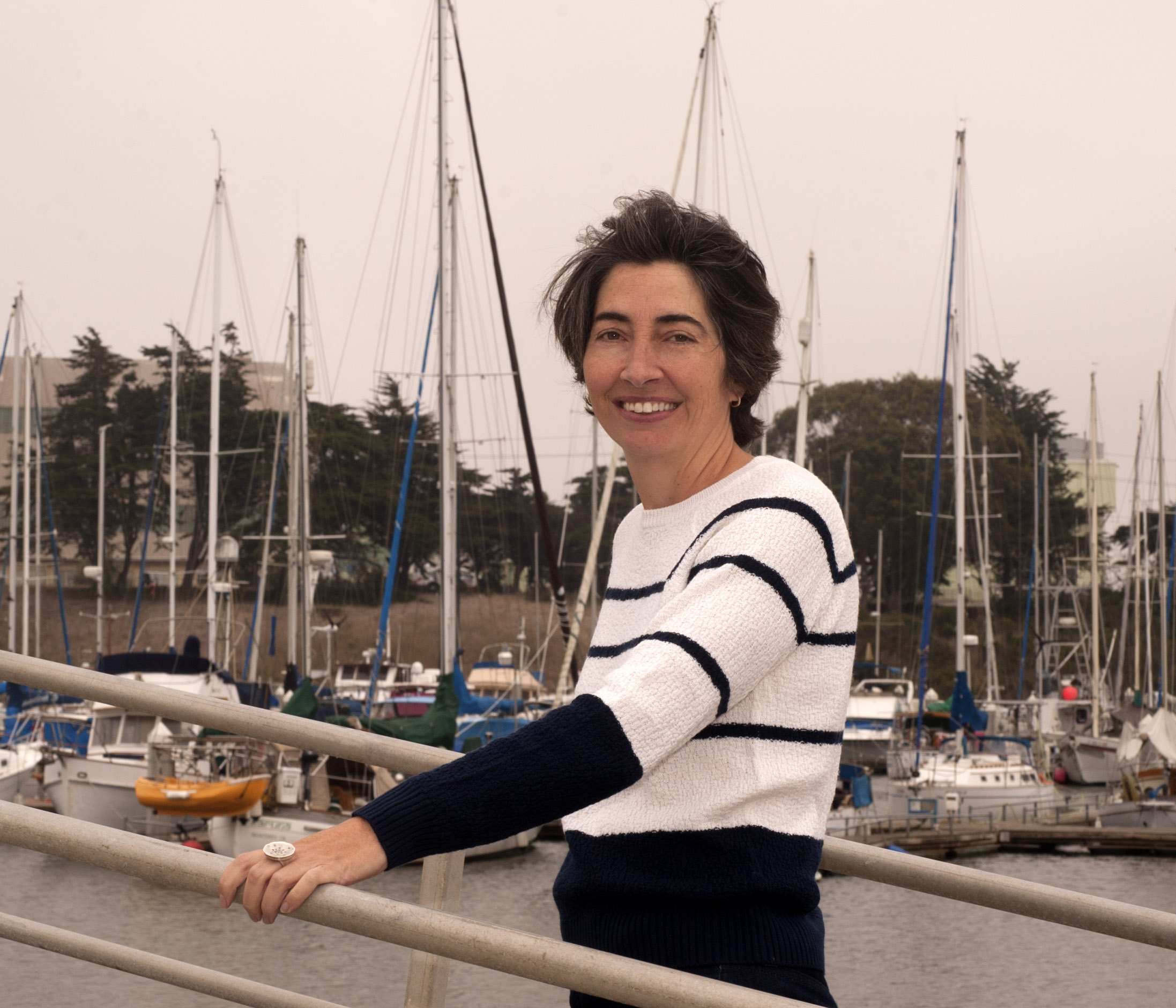 Photo of Alexandra Worden, American Oceanographer, taken in 2017